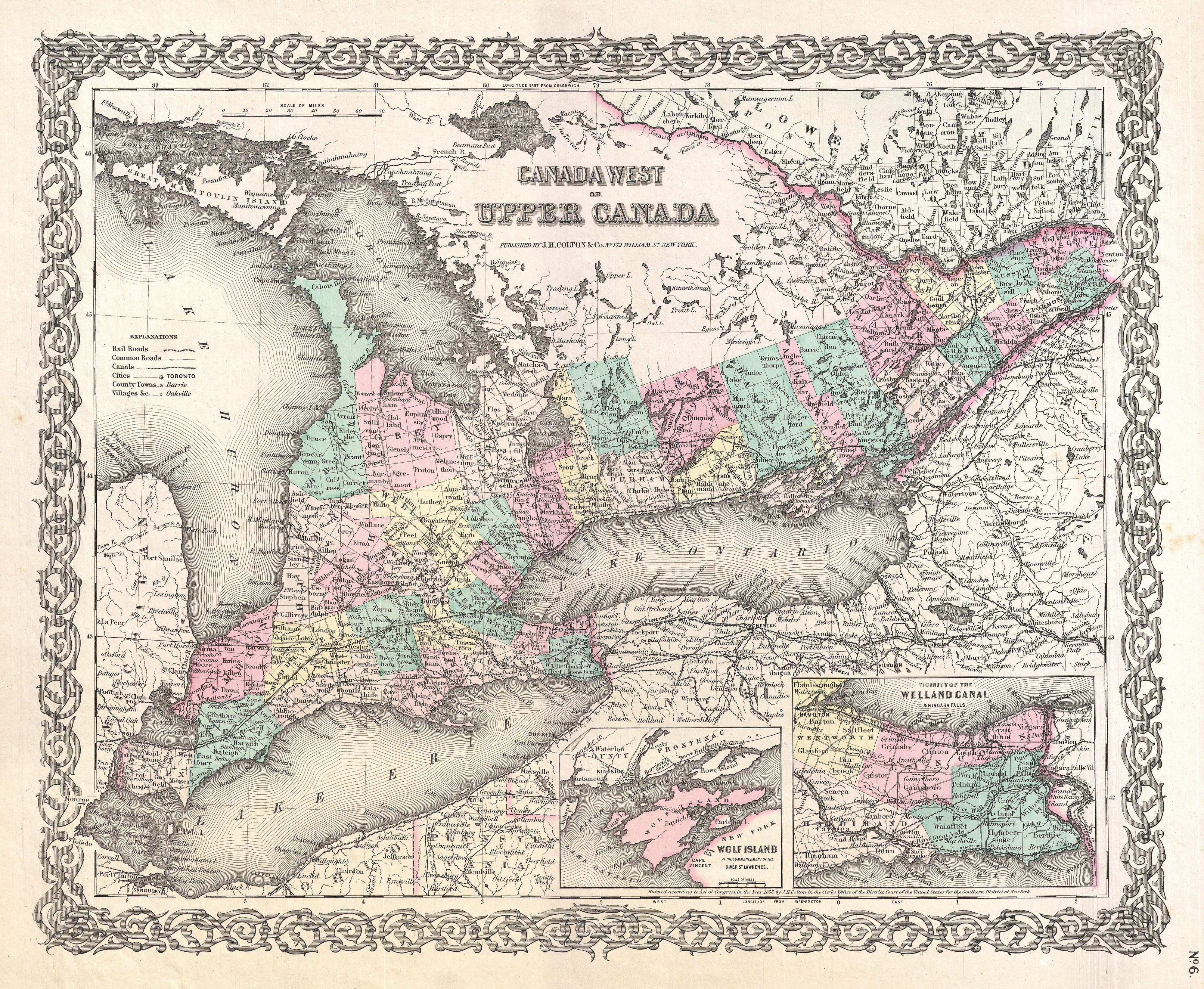 An excellent first edition example of Colton's rare 1855 map of Ontario. Covers what at the time was called Upper or West Canada from Michigan to Montreal. Includes Lake Erie, Lake Ontario, and part of Lake Huron. Two insets in the lower right quadrant detail Wolf Island and the Welland Canal. Throughout the map Colton identifies various cities, towns, forts, rivers, rapids, fords, and an assortment of additional topographical details. Map is hand colored in pink, green, yellow and blue pastels to define national and regional boundaries. Surrounded by Colton's typical spiral motif border. Dated and copyrighted to J. H. Colton, 1855. Published as page no. 6 in volume 1 of the first edition of George Washington Colton's 1855 Atlas of the World .